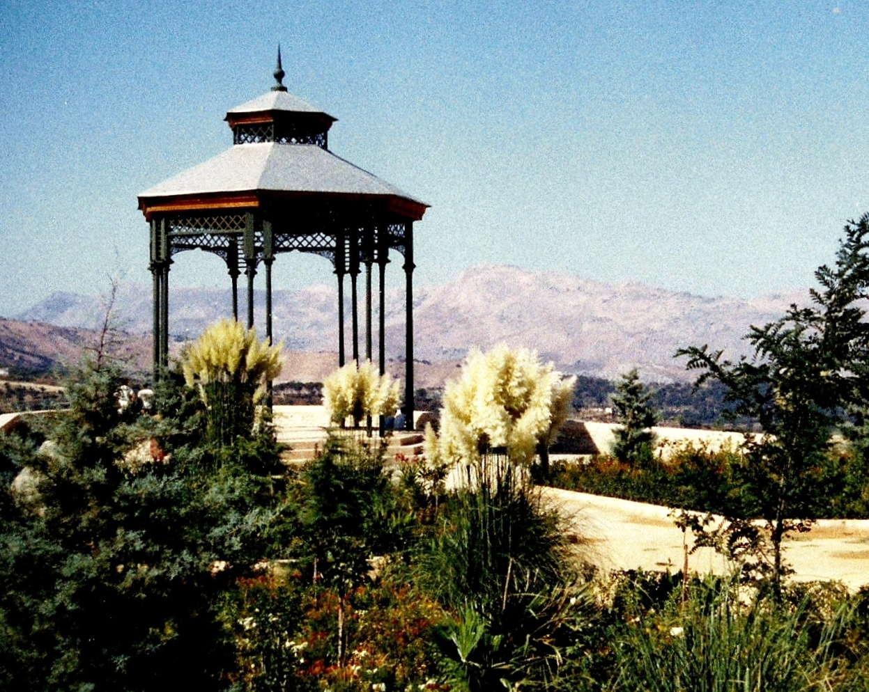 Ronda, Andalusia, Spain, 1981